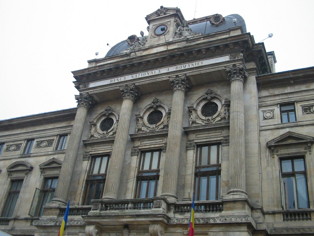 the National Bank of Romania in Bukarest